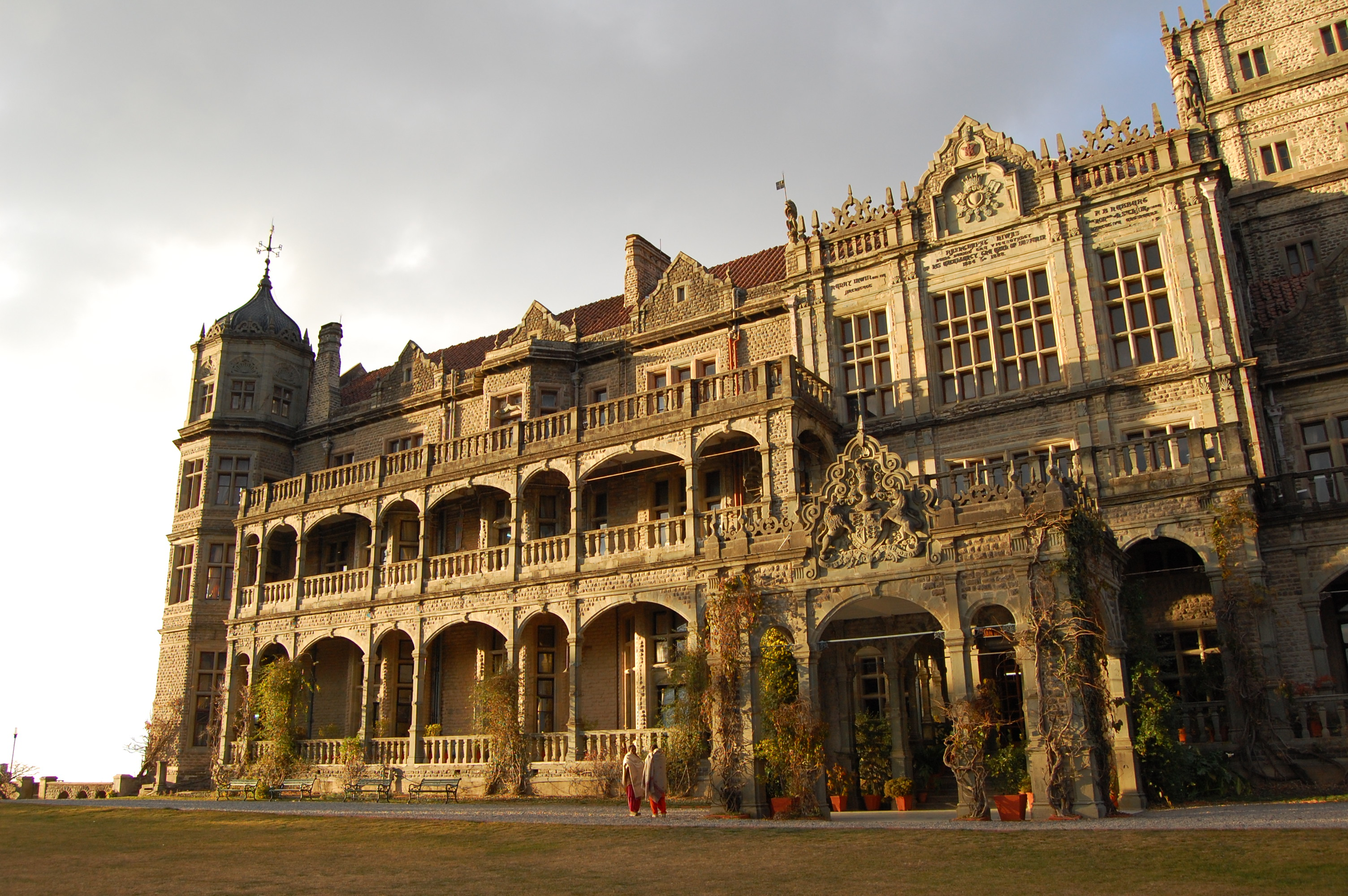 Rashtrapati Niwas, Shimla, former "Viceregal Lodge", built 1888. Now Indian Institute of Advanced Study